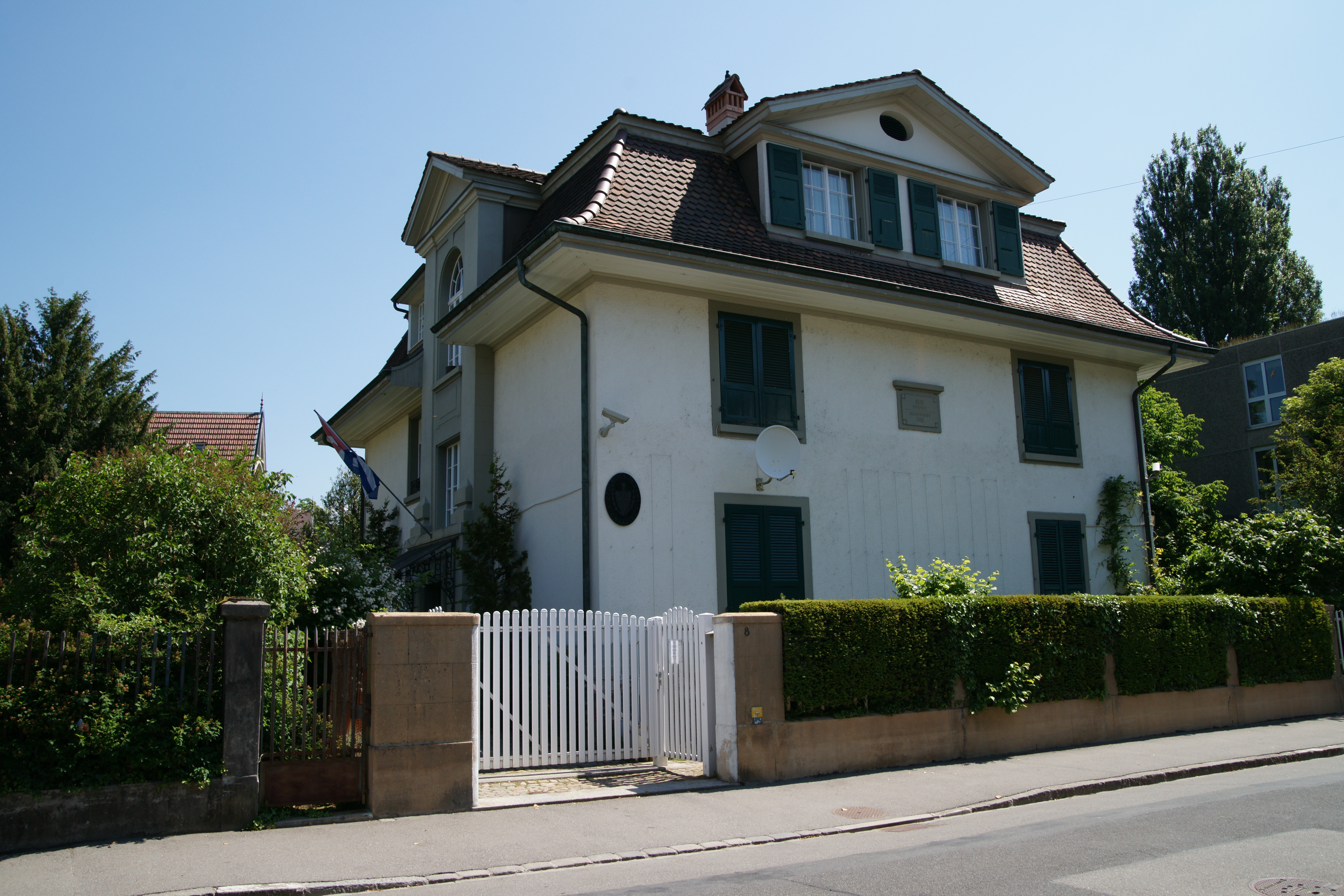 Embassy of Cuba on Gesellschaftsstrasse 8, Bern, Switzerland.